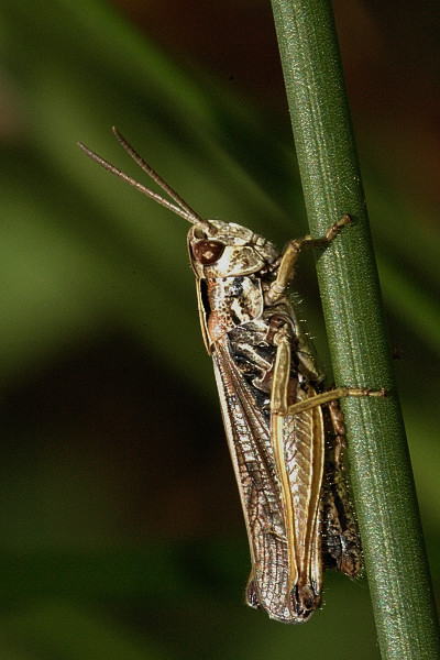 Picture taken in Commanster, Belgian High Ardennes . Species: Omocestus viridulus male